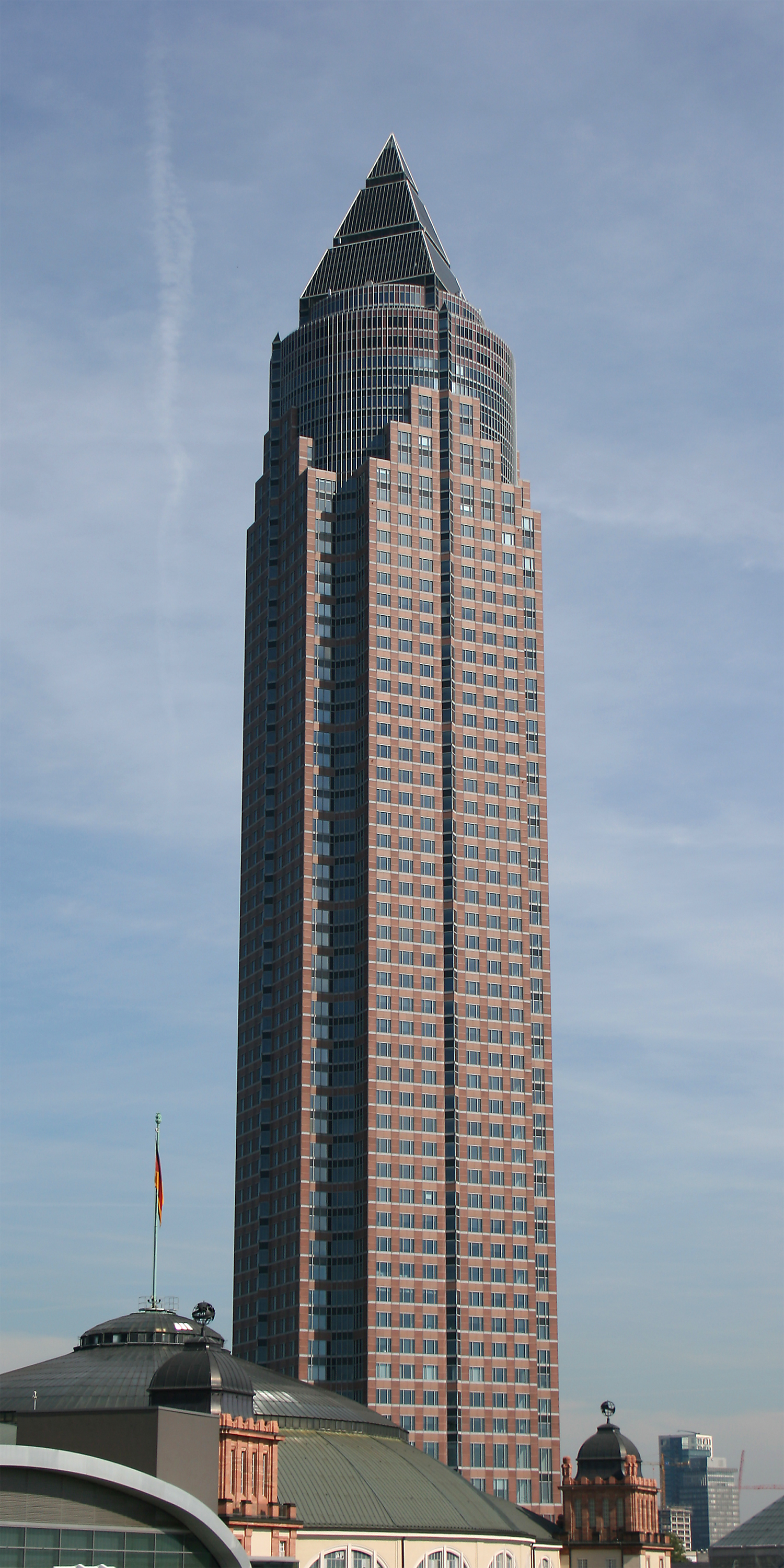 the Messeturm in Frankfurt am Main, Germany